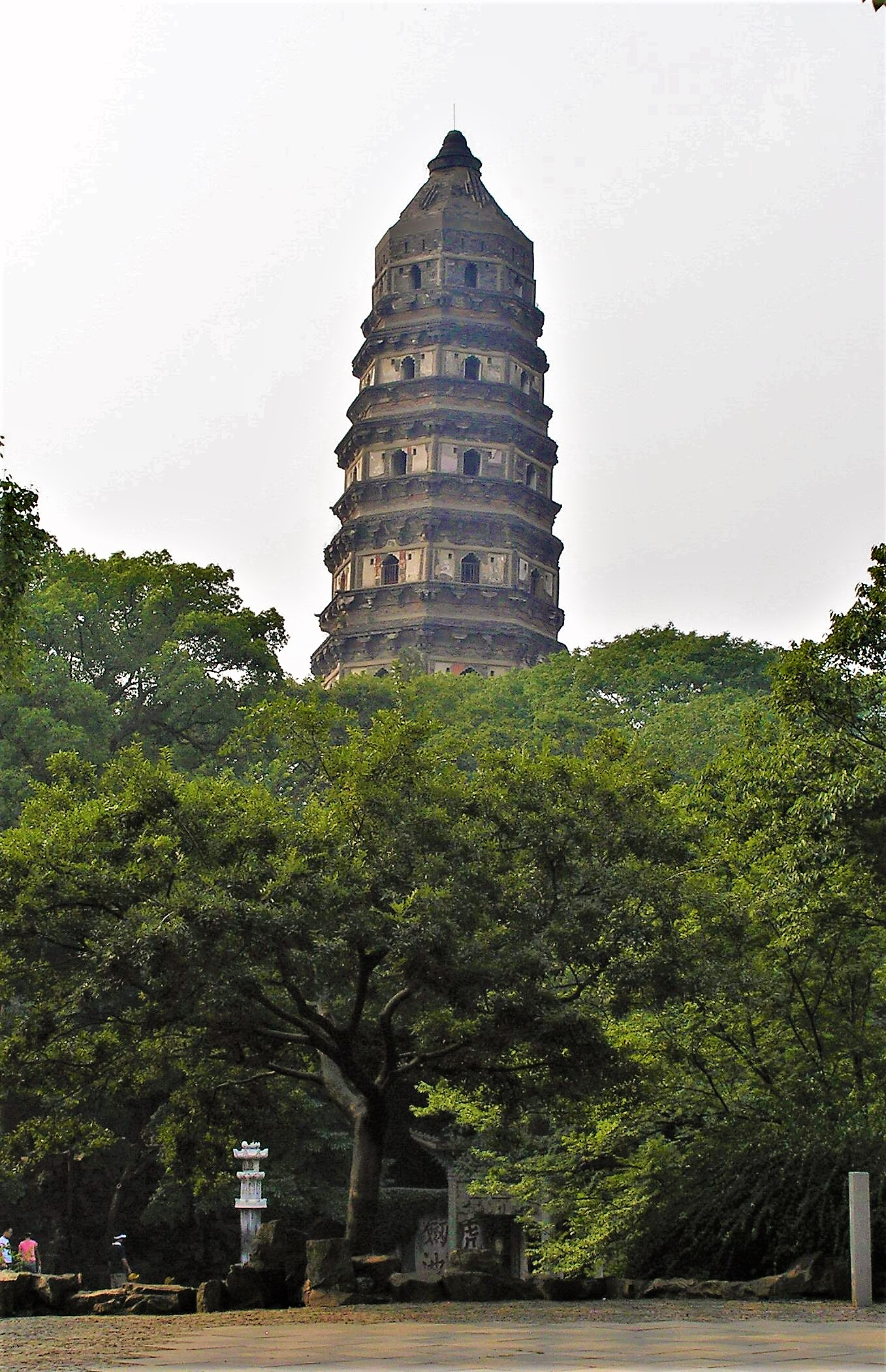 Yunyan Ta (Cloud Rock Pagoda), also known as leaning pagoda, at the top of Hu Qiu Shan (Tiger Hill) in Suzhou, China